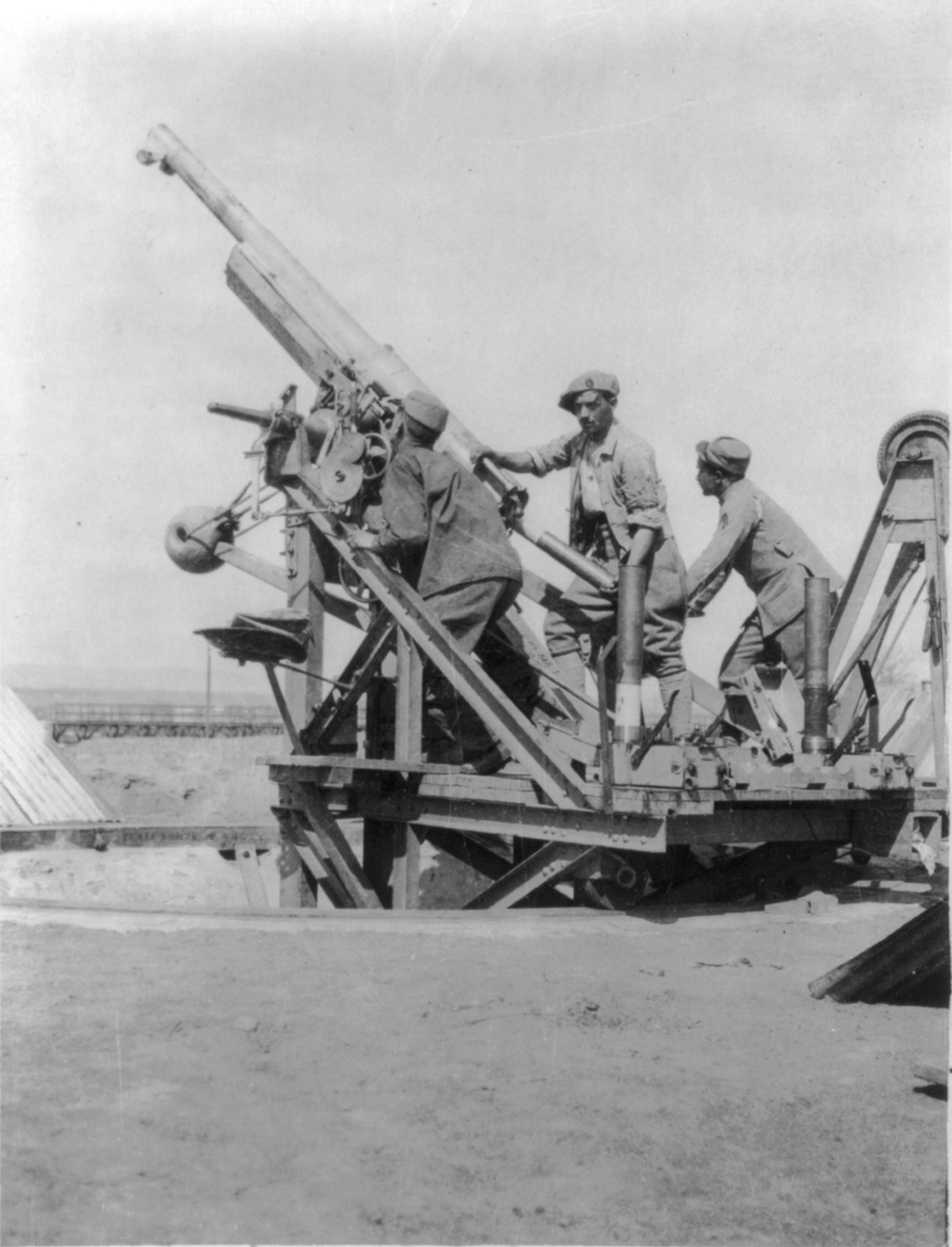 Photograph showing French gunners with 75 mm anti-aircraft gun, Salonika Front, World War I. See also : File:French 75 mm AA gun Salonika 1917 IWM HU 091353.jpg